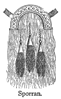 Illustration from 1908 Chambers's Twentieth Century. Sporran, n. an ornamental pouch worn in front of the kilt by the Highlanders of Scotland.